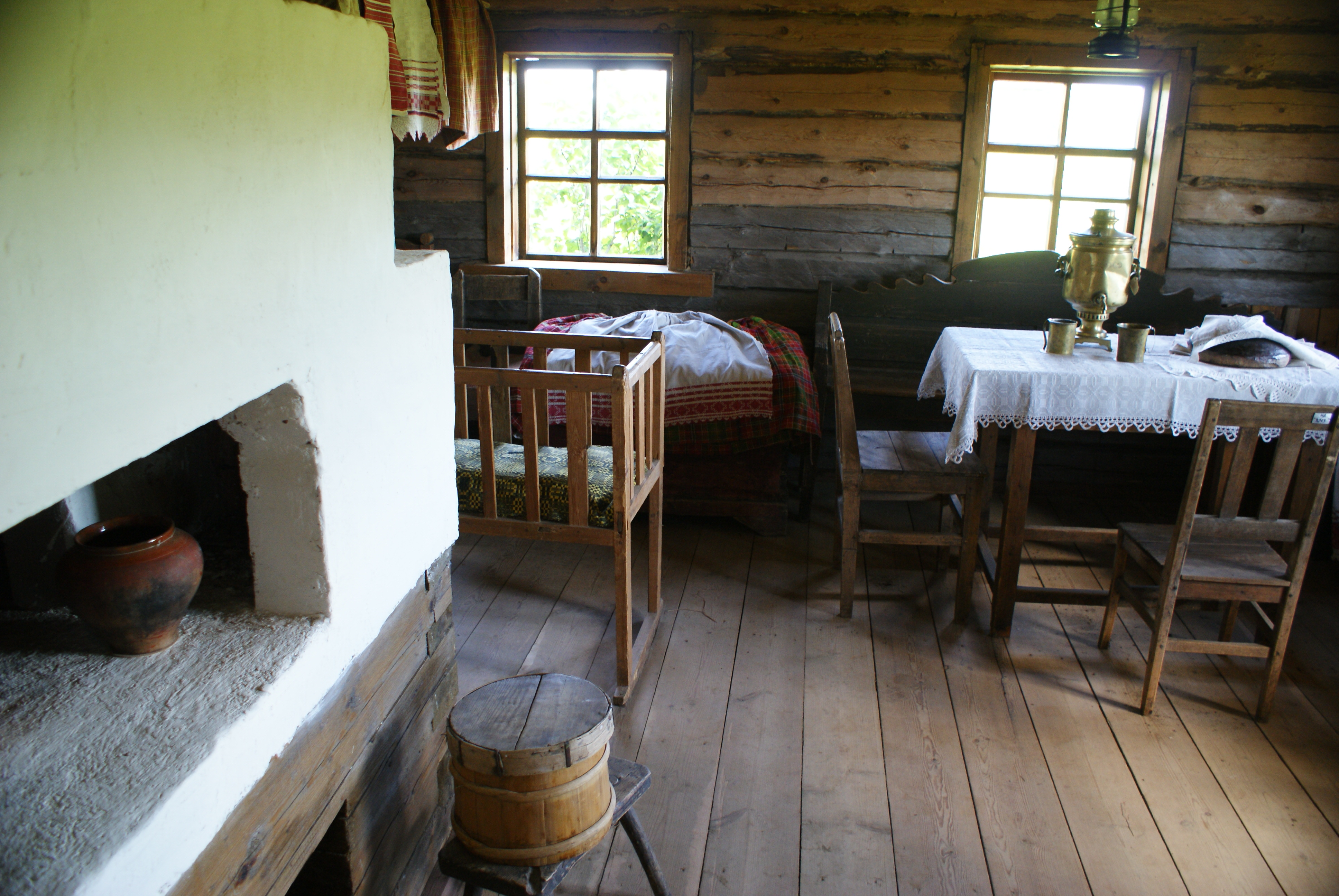 Interior. State museum of folk architecture and life, Belarus